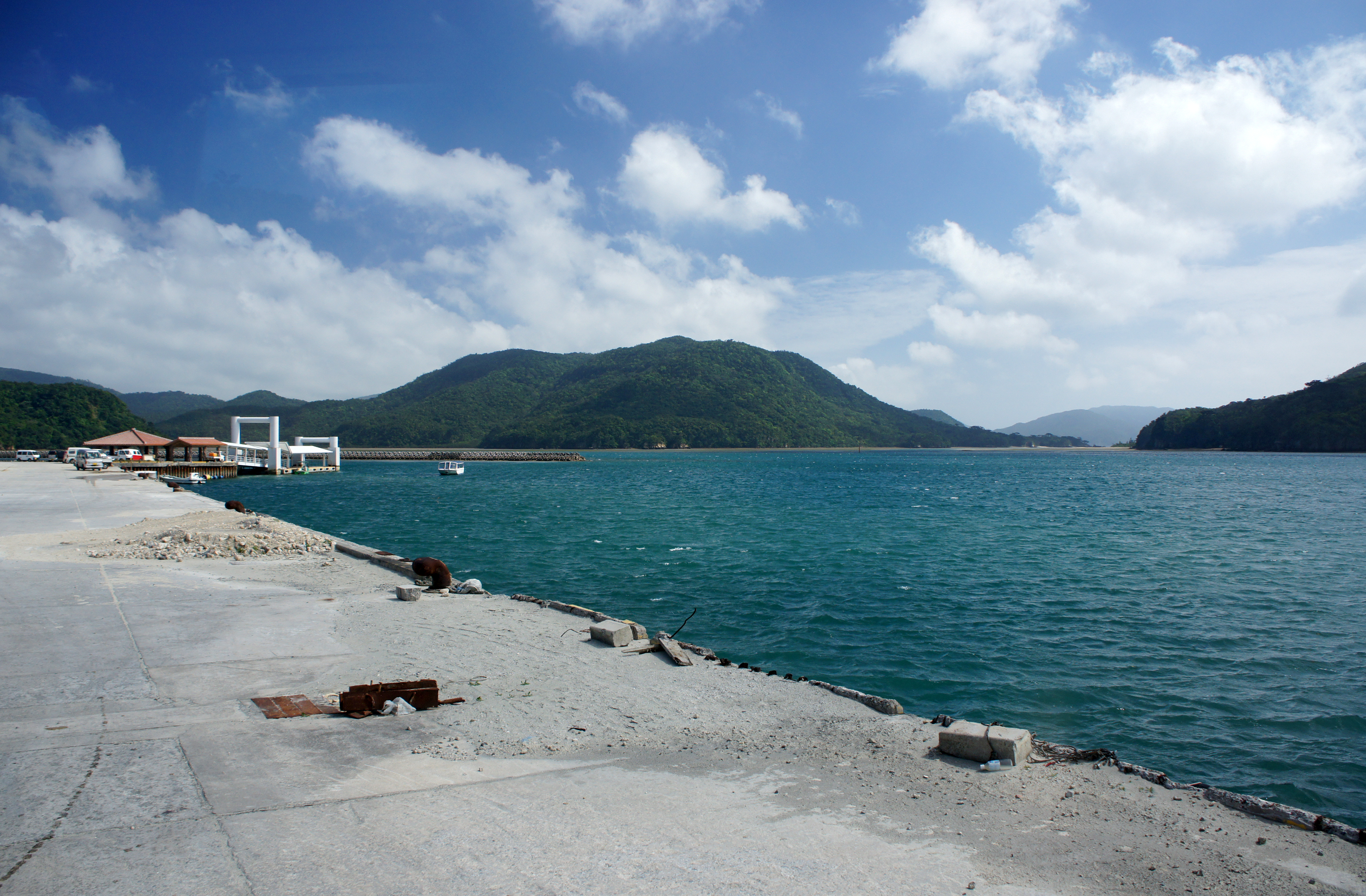 Shirahama Port in Iriomote Island, Taketomi Town, Okinawa prefecture, Japan.